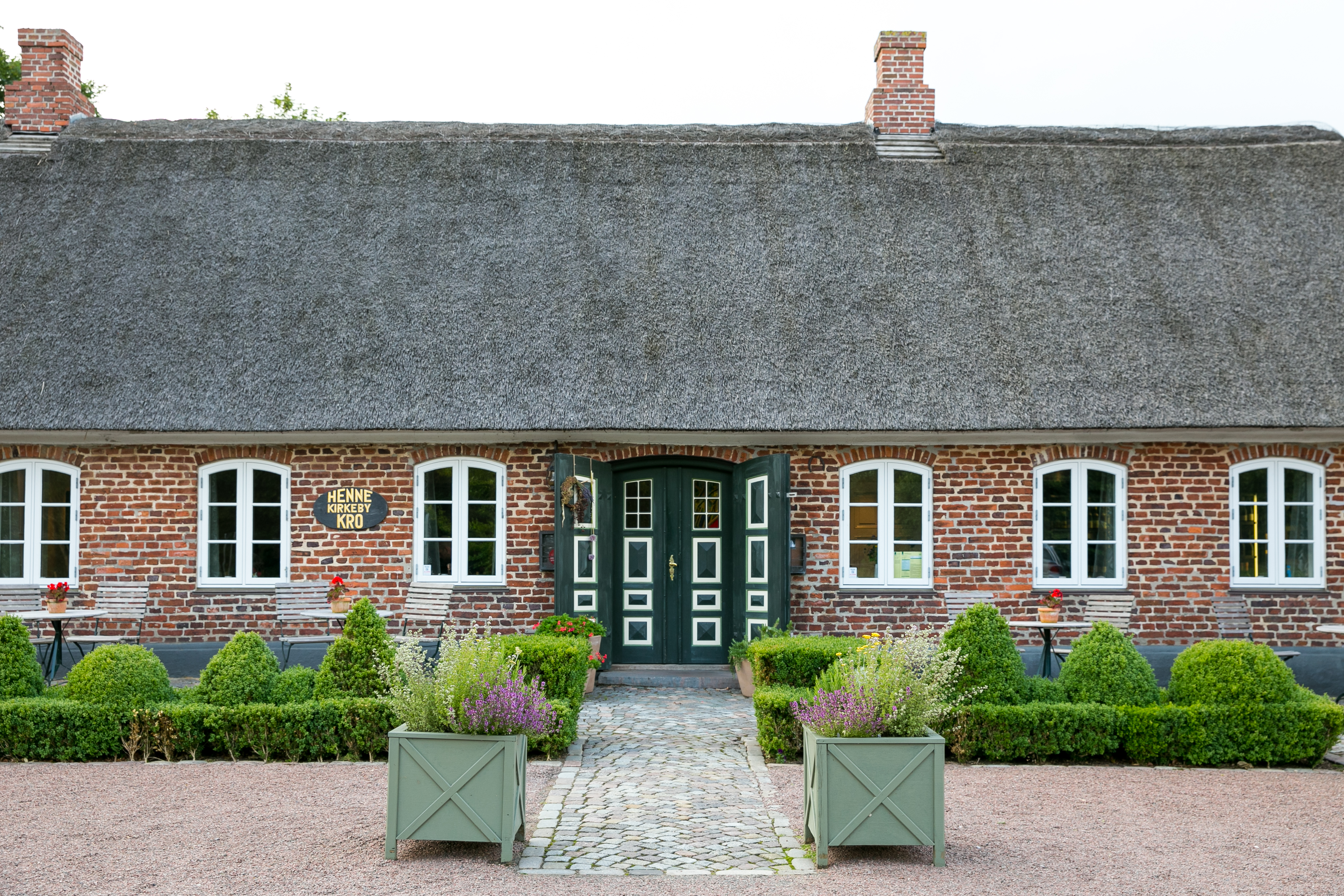 Denmark - Henne - Henne Kirkeby Kro (July 2016) - IMG_6596